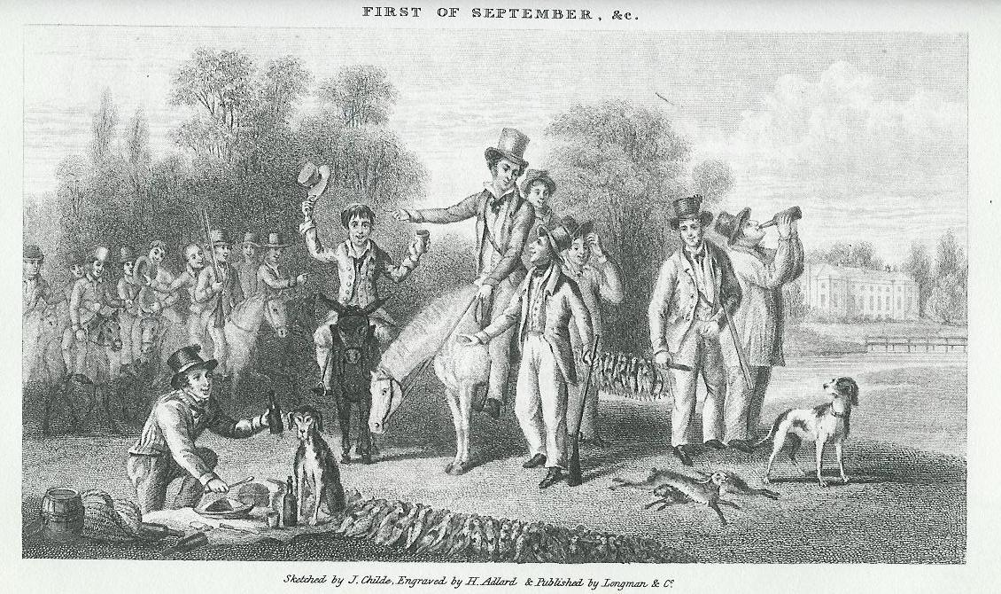 An engraving by H. Adlard of a sketch by J. Childe depicting a shooting party on the 1st September 1827. Joe Manton (gunmaker) and Colonel Peter Hawker depicted together with diverse others.